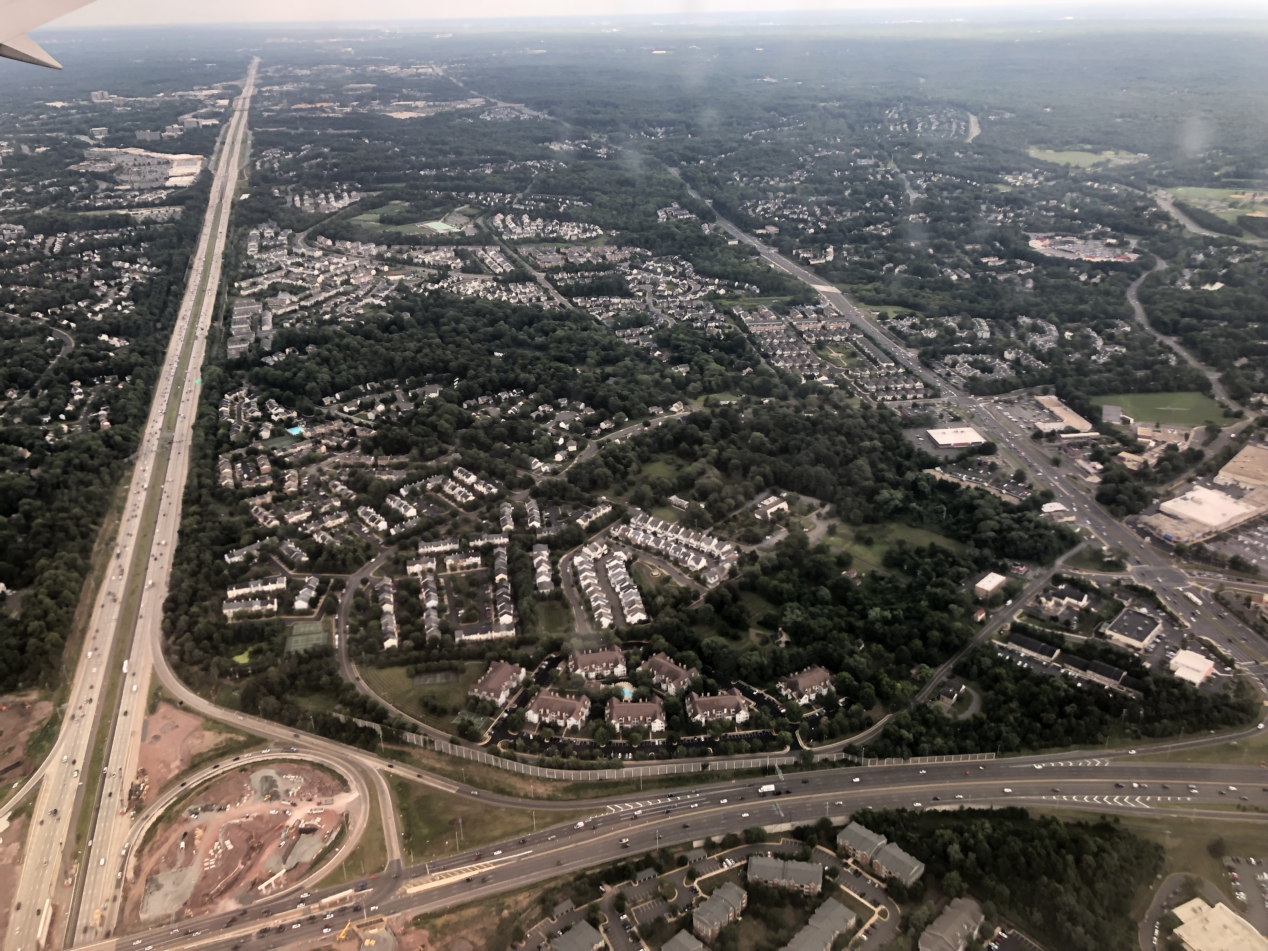 View east along Interstate 66 and U.S. Route 29 (Lee Highway) from an airplane heading for Washington Dulles International Airport passing over Virginia State Route 28 in Centreville, Fairfax County, Virginia